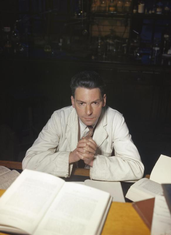 Dr Wilson Baker, of the Dyson-Perrins laboratory, Oxford.